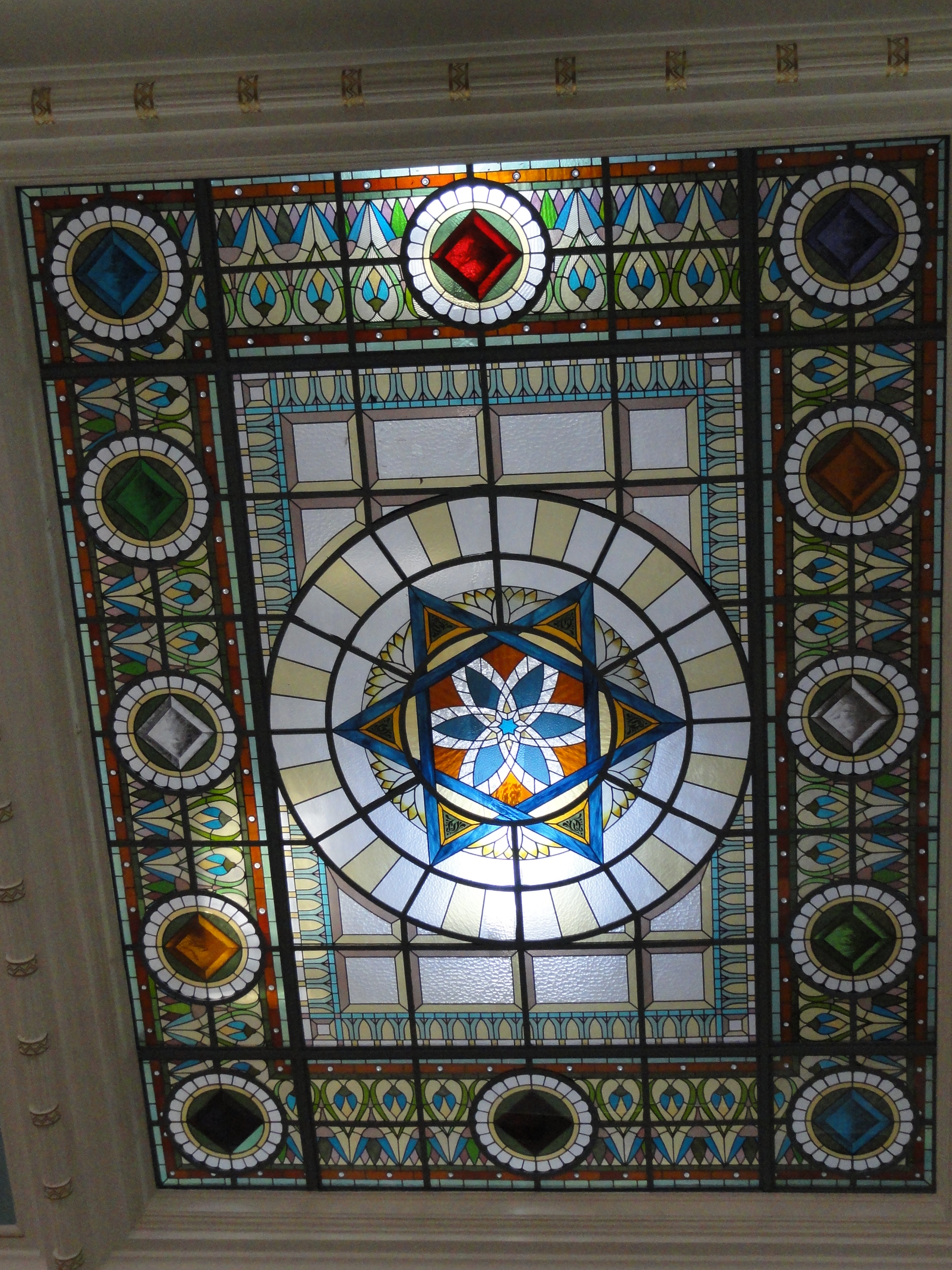 Synagogue of Riga (Litvia). Stained glass roof with Star of david